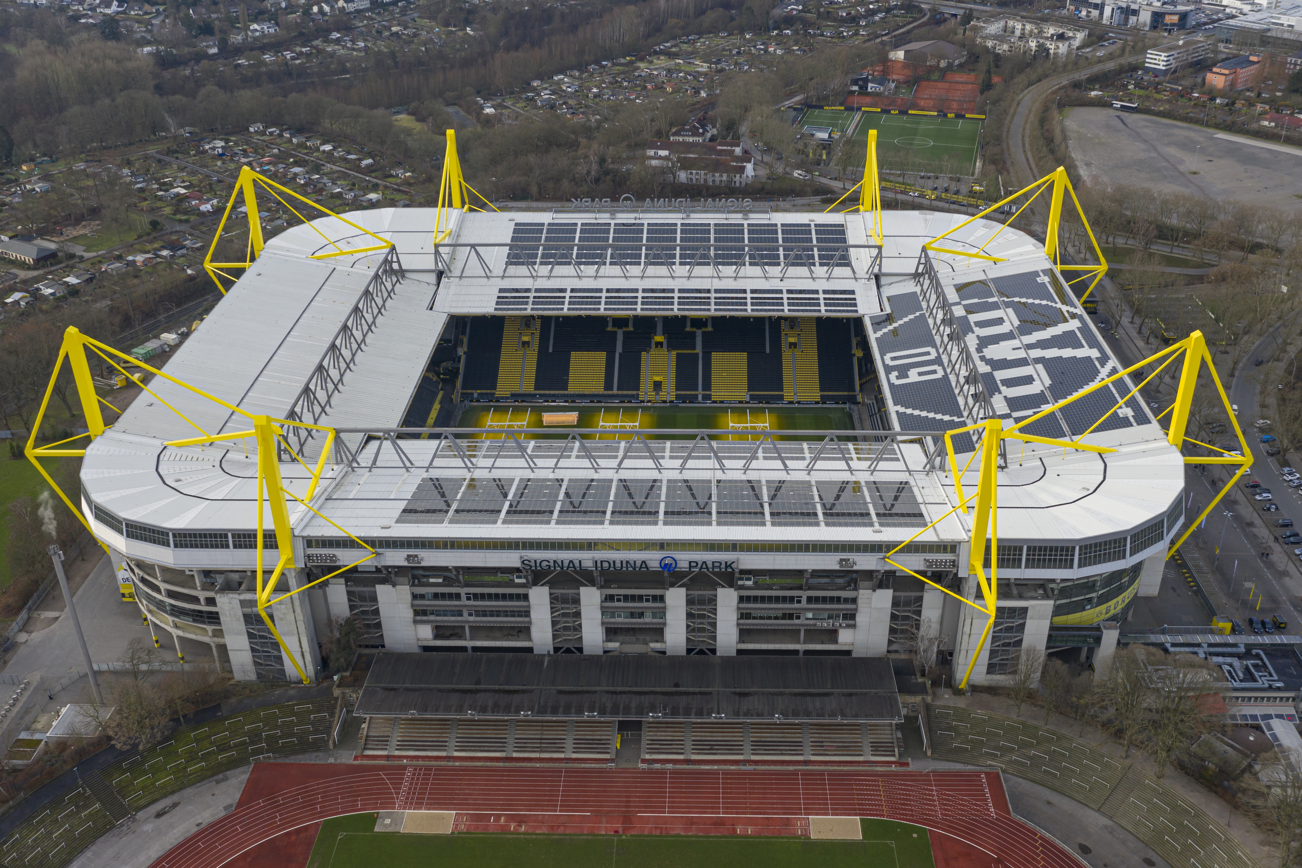 Westfalenstadion (or Signal-Iduna-Park) is a football stadium in Dortmund, North Rhine-Westphalia, Germany, which is the home of Borussia Dortmund.